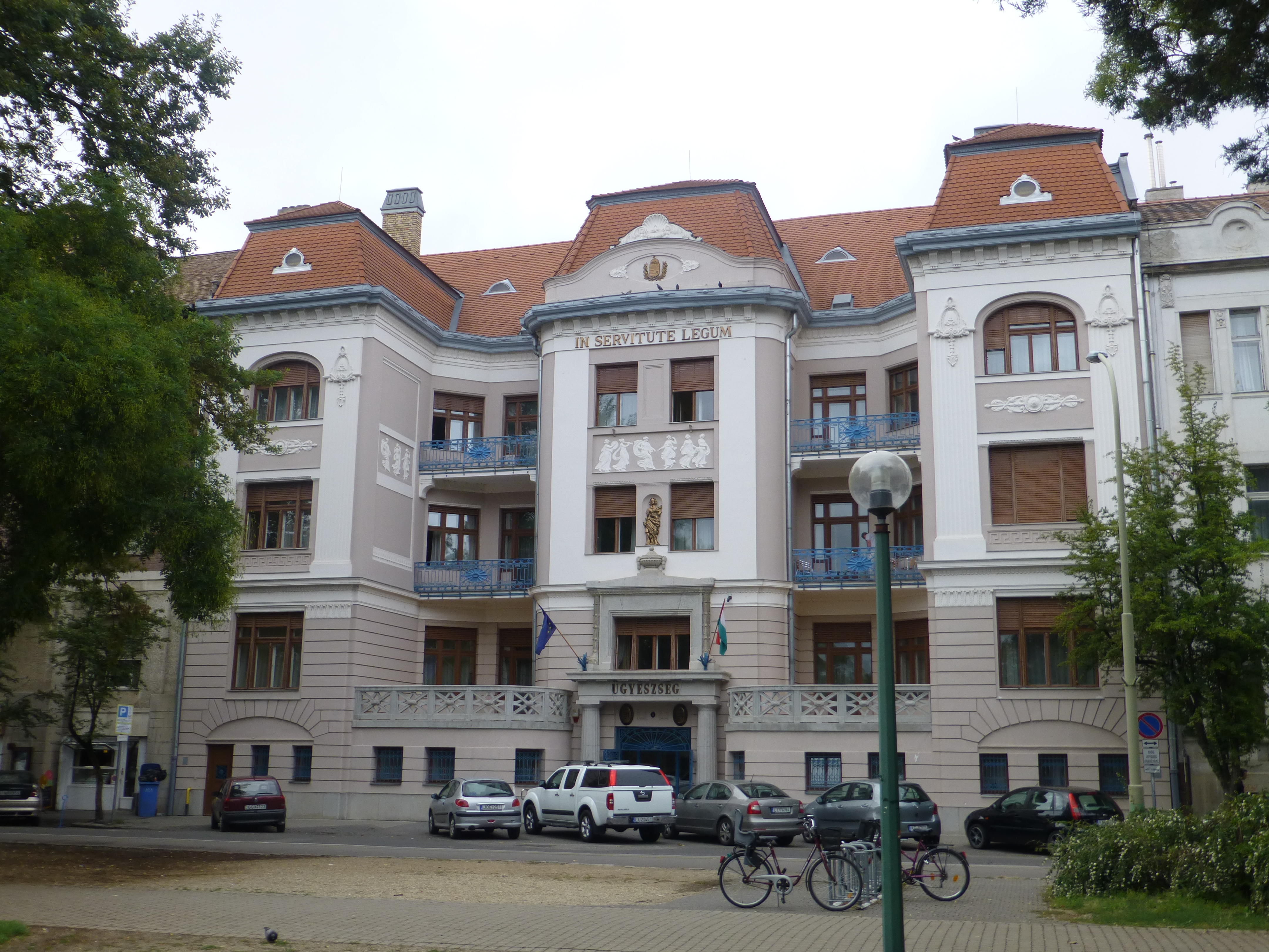 The Vajda palace in Szeged This is a photo of a monument in Hungary. Identifier: 3501